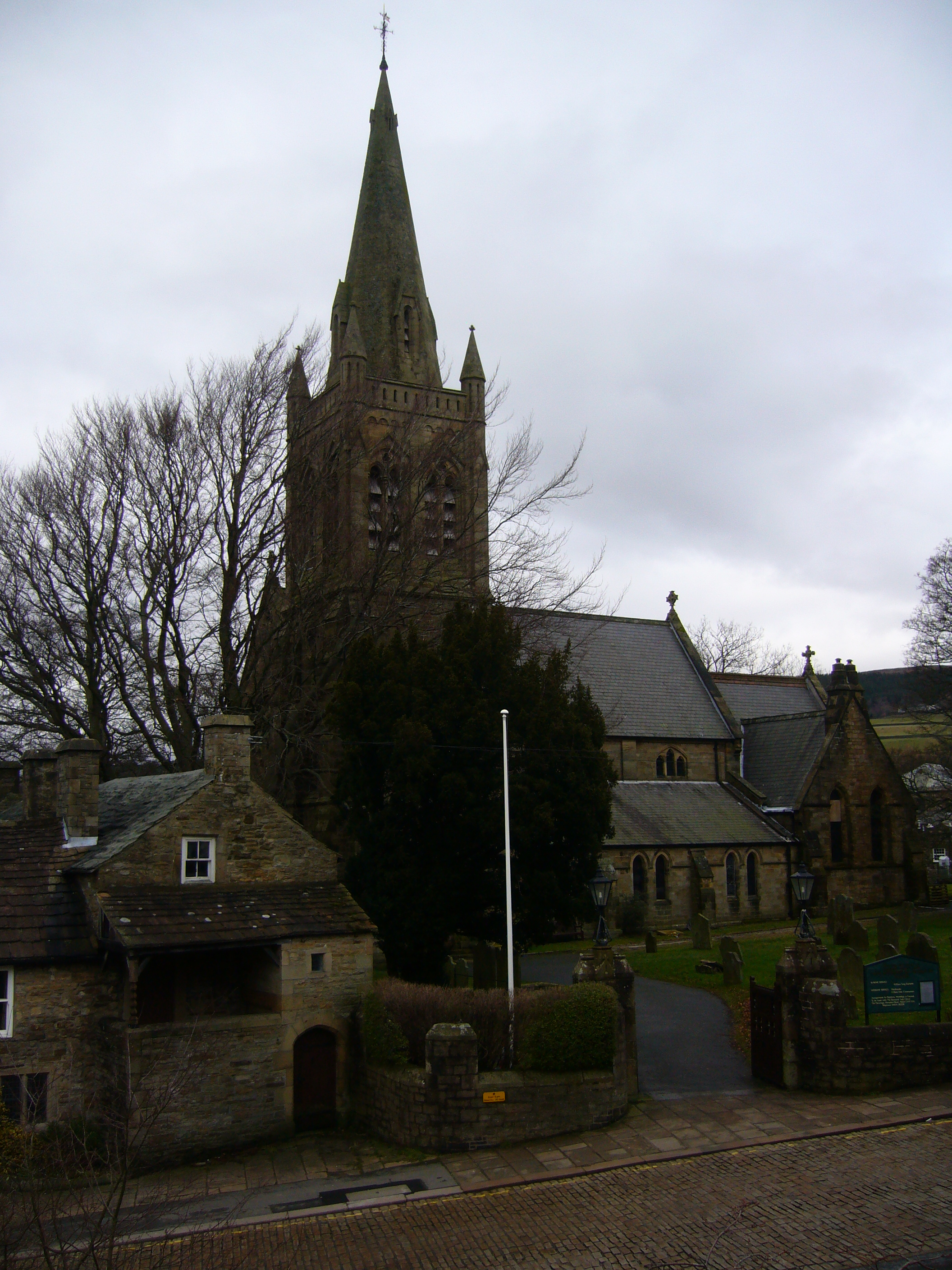 Parish Church St Augustine of Canterbury, Front Street, Alston, Cumbria, seen from the southwest